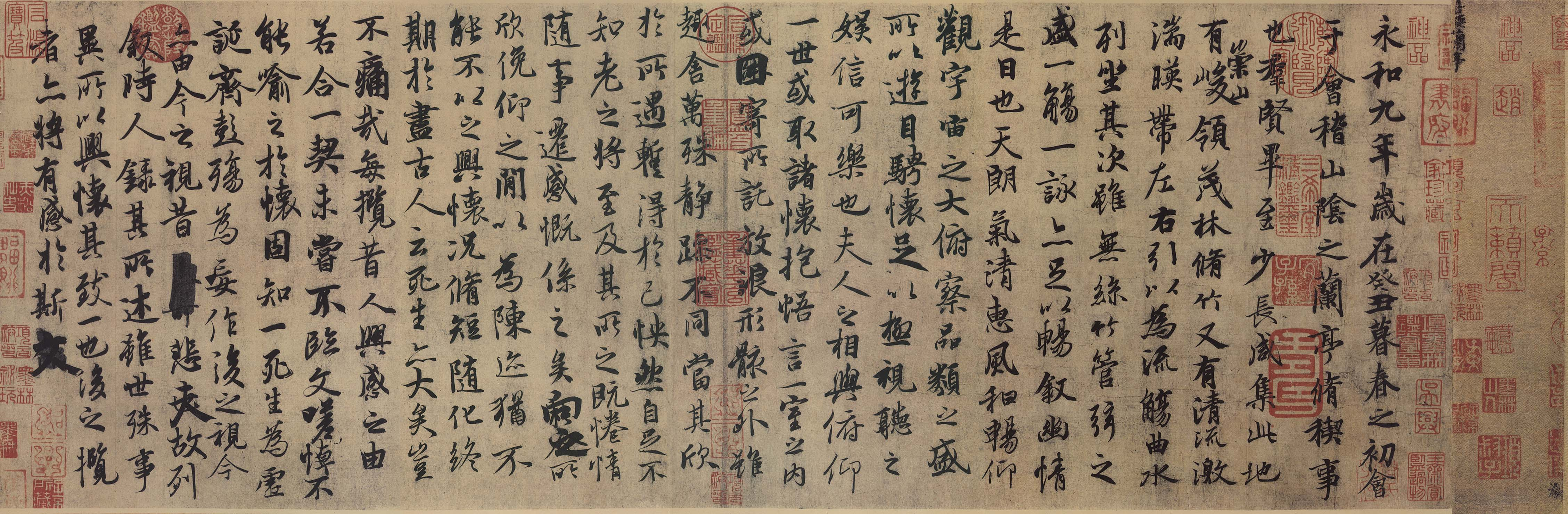 Main text of a Tang Dynasty copy of Wang Xizhi's Lantingji Xu by Feng Chengsu (馮承素). Throughout Chinese history, many copies were made of the Lantingji Xu, which described the beauty of the landscape around the Orchid Pavilion and the get-together of Wang Xizhi and his friends. The original is lost, however some believed that it was buried in the mausoleum of Emperor Taizong of Tang. This Tang copy made between 627-650 is considered the best of the copies that has survived. Located in the Palace Museum in Beijing.